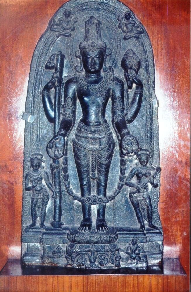 Indian Art, Calcuta